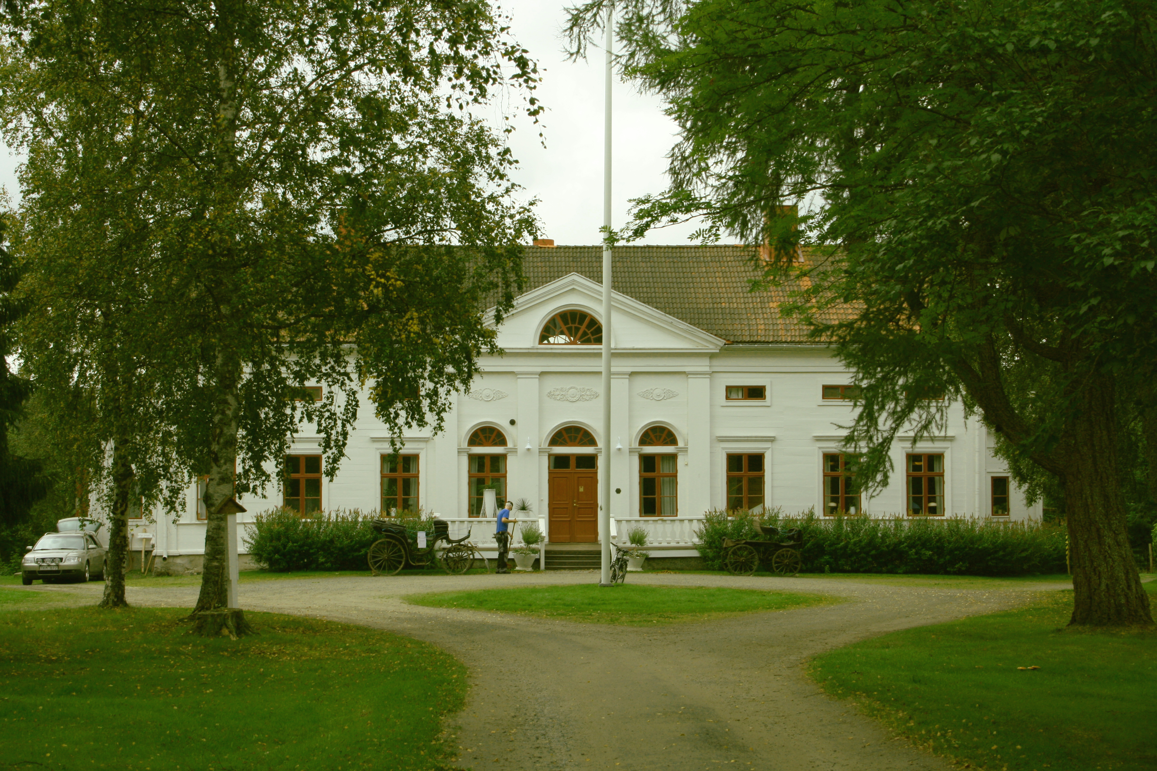 Frontside of Baggböle mansion in Baggböle, Umeå Municipality.